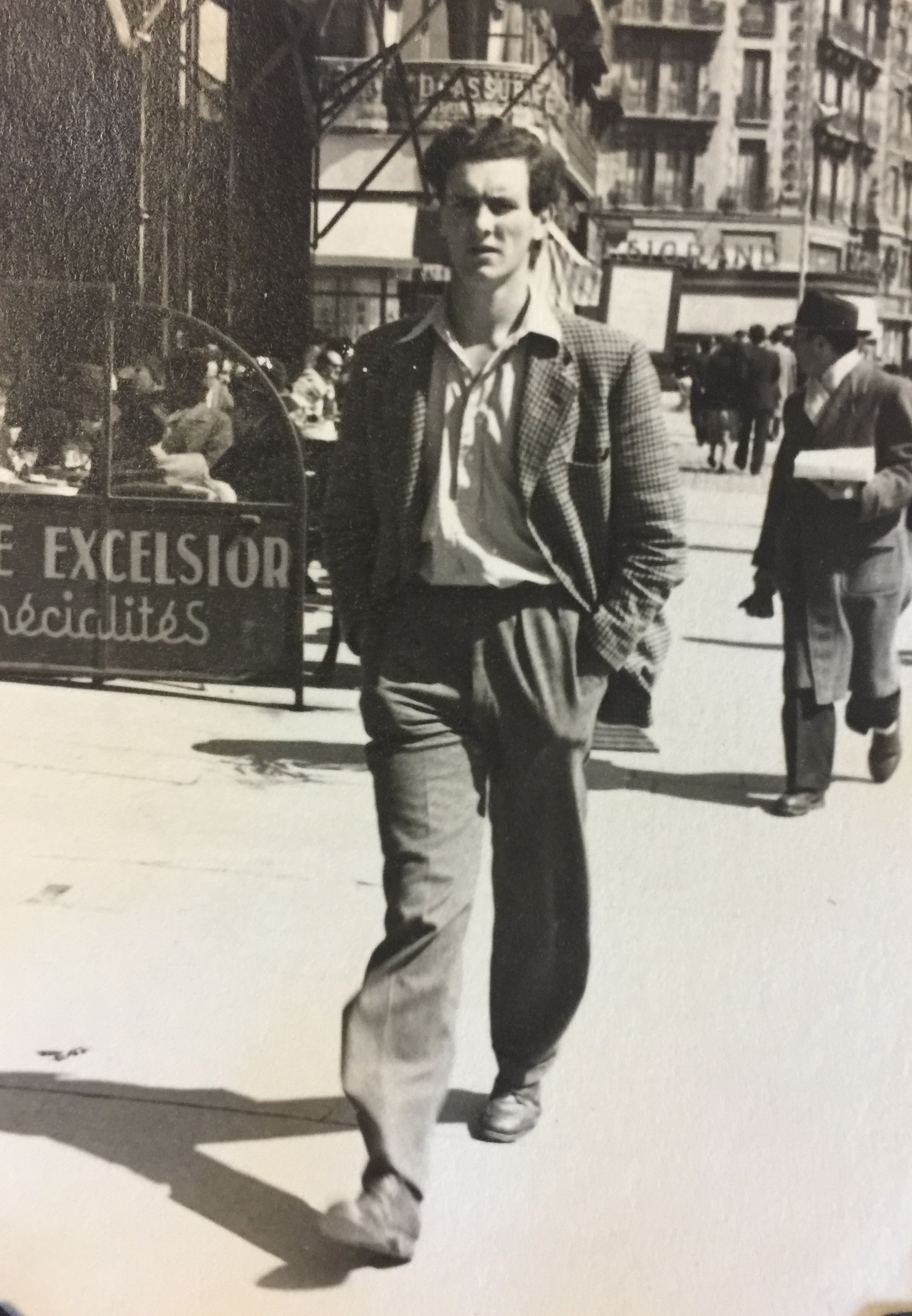 Richard Frank Salisbury, Anthropologist